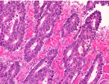 Micrograph of poorly differentiated colorectal carcinoma. See Histopathology of colorectal carcinoma for context.